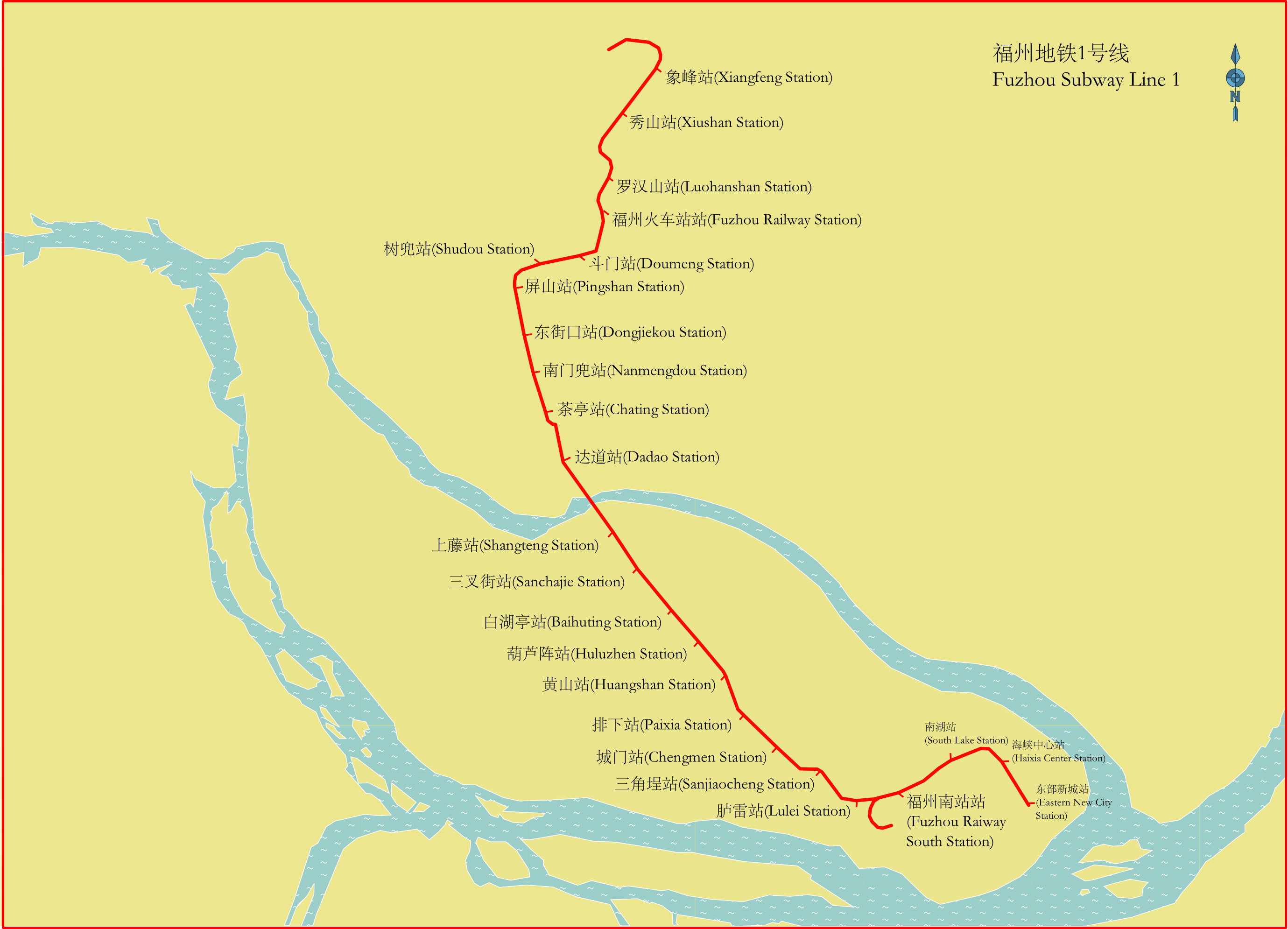 Fuzhou subway map, line one. 福州地铁1号线。